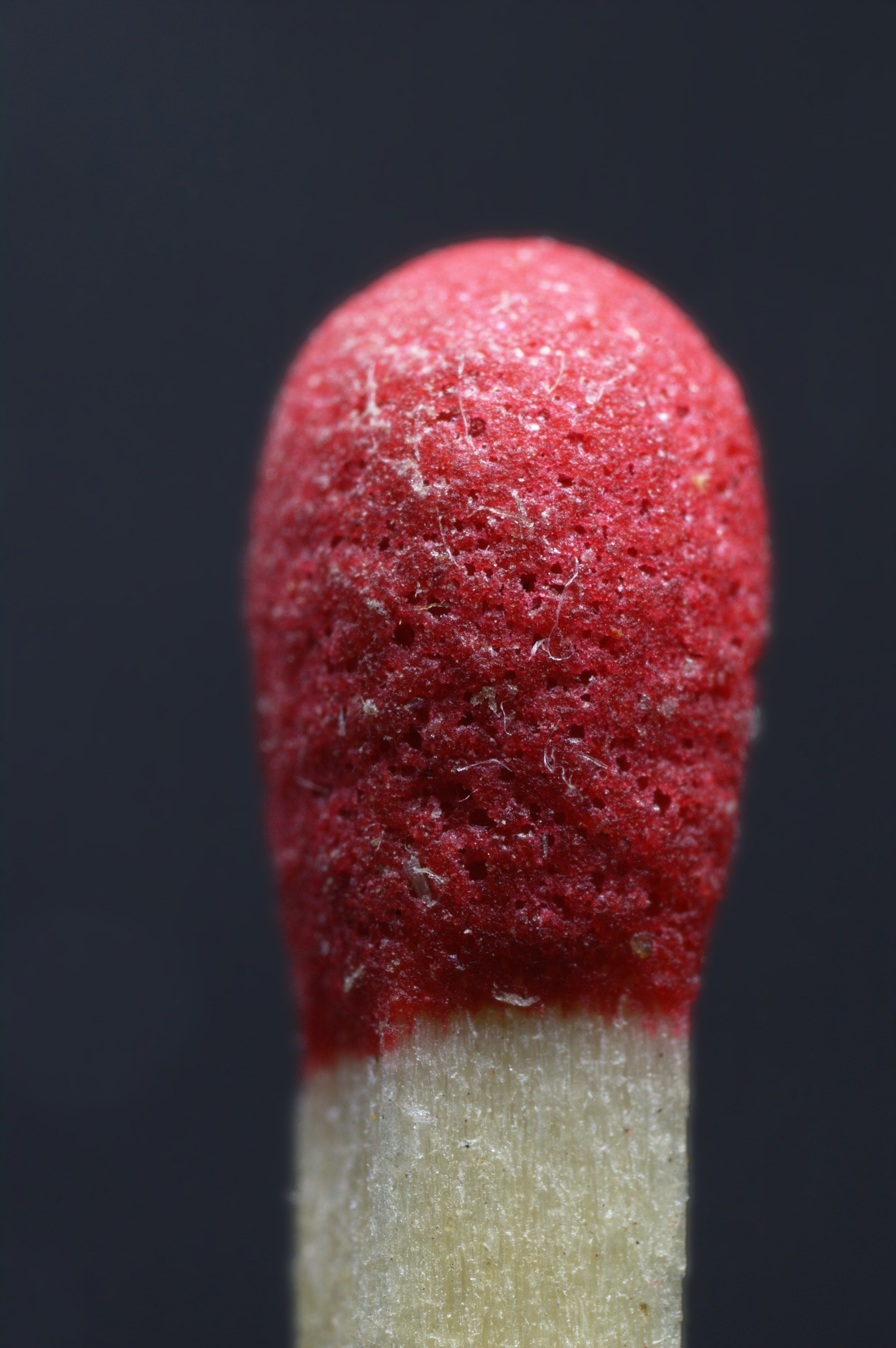 A macro photography of a match